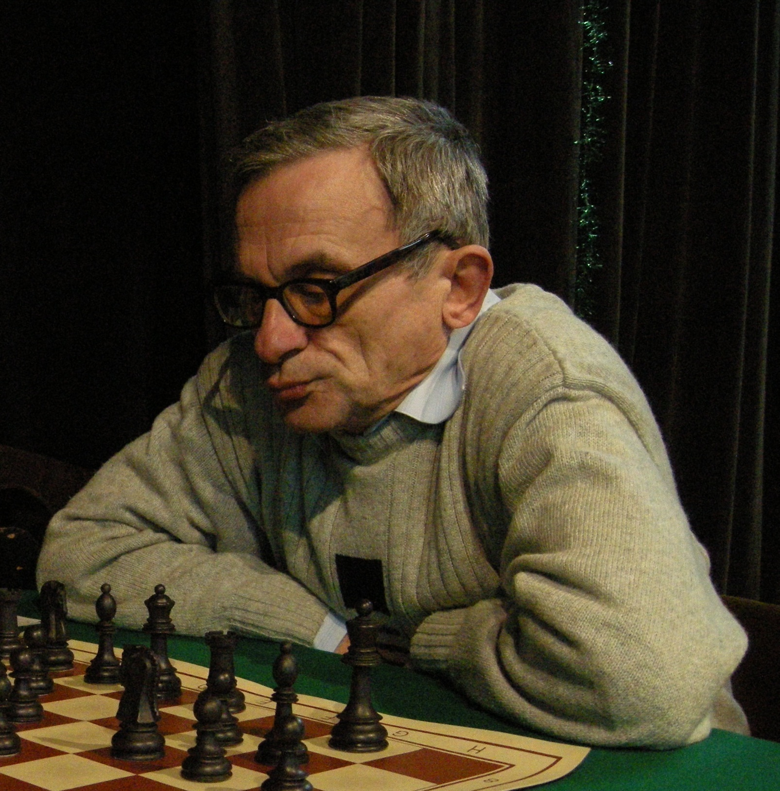 Evgenij Petkov Ermenkov - Bulgarian chessplayer, a grossmaster. Born 29 Sept 1949 in Sofia, Bulgaria.